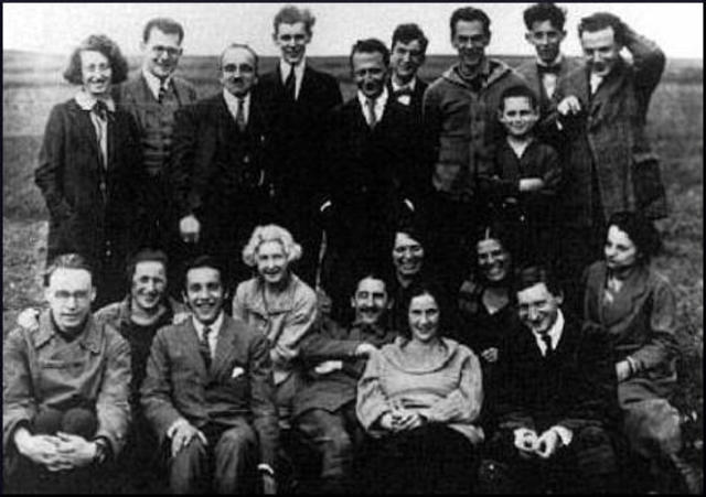 public domain